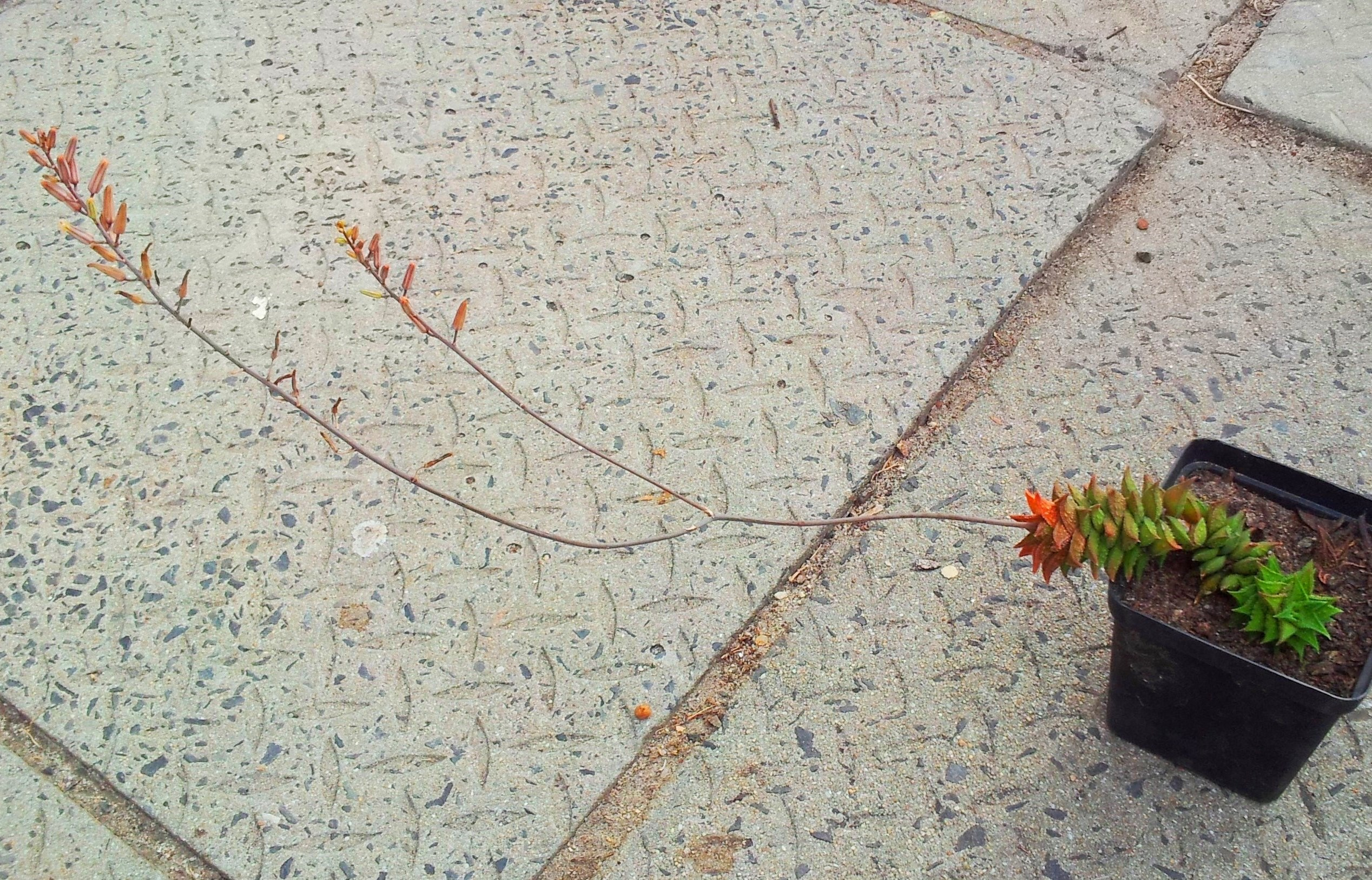 Astroloba corrugata in cultivation with inflorescence - flowers - Cape Town